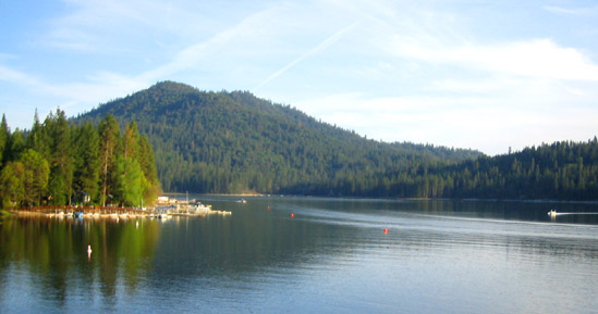 Goat Mountain, and Bass Lake — a reservoir the Sierra Nevada, Madera County, California. Photographed by Guy Welch.